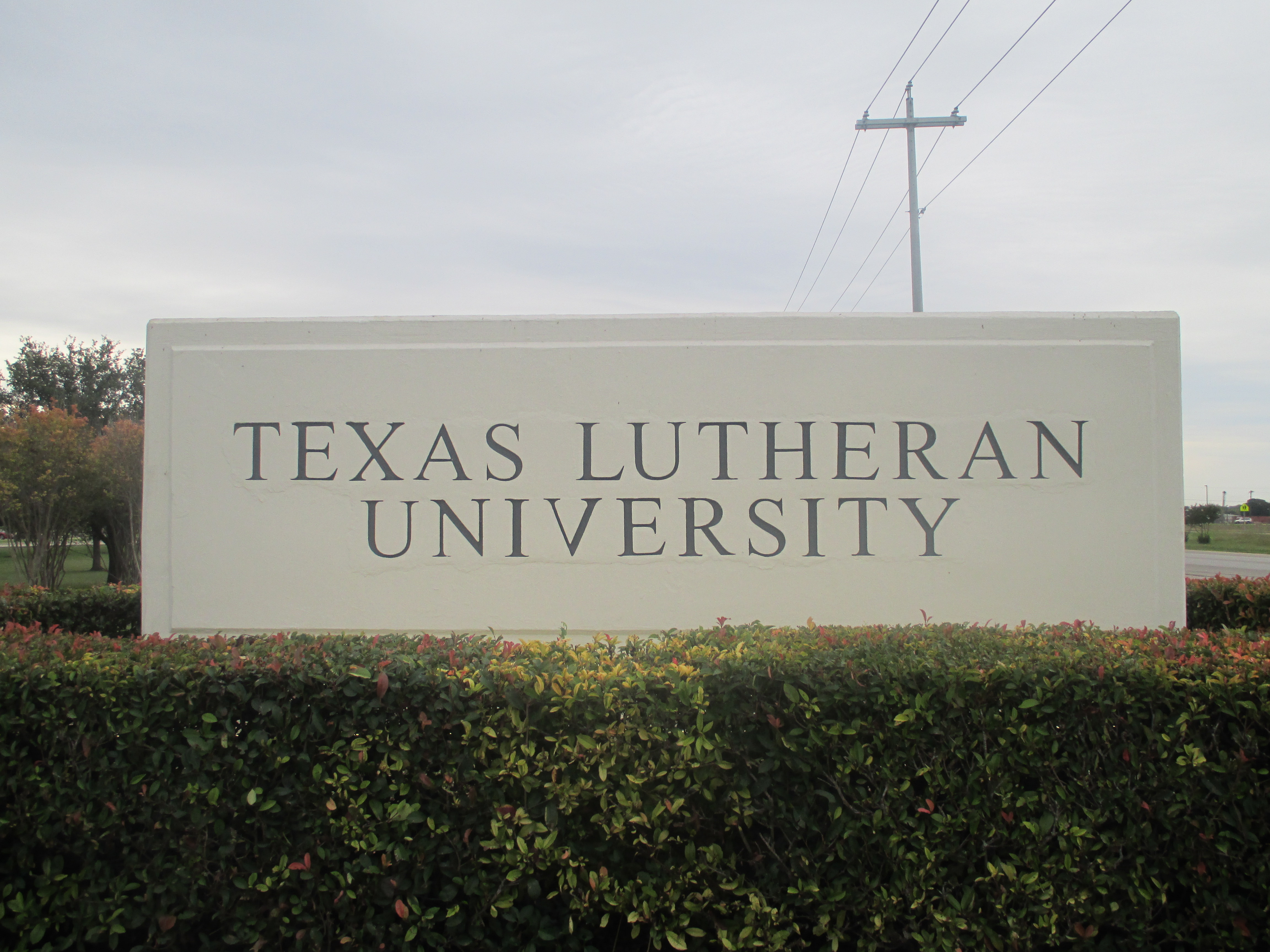 I took photo with Canon camera of entrance sign at Texas Lutheran University in Seguin.